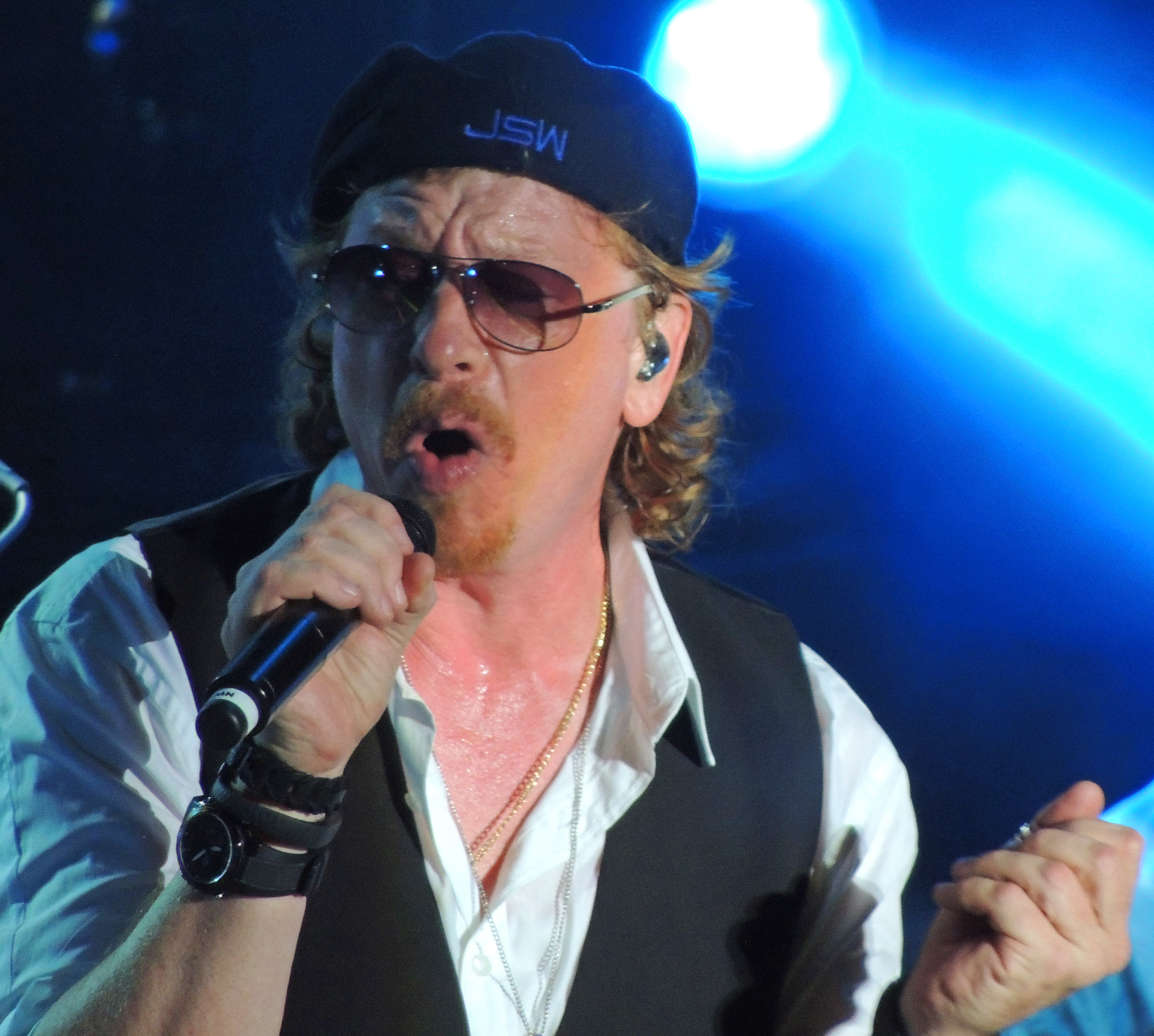 Joseph Williams in Örebro, Sweden July 3, 2013. Toto's 35th Anniversary Tour.